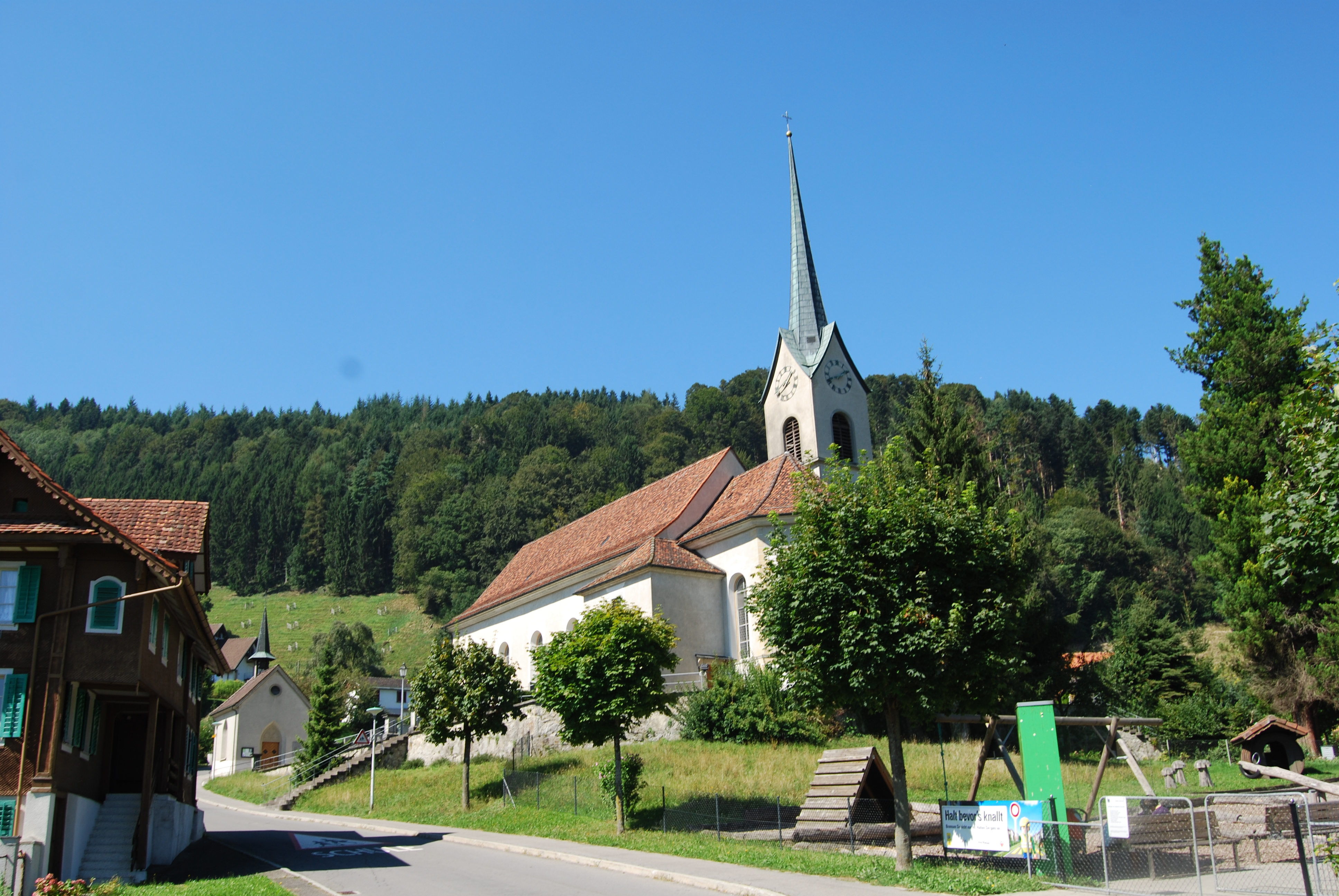 Church of Meierskappel, canton of Lucerne, Switzerland